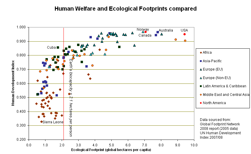 Graph showing ecological footprints of nations along with the Human Development Index (a measure of quality of life)